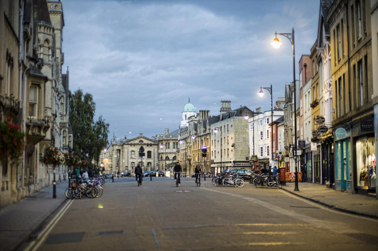 merry olde england (Broad Street, Oxford)